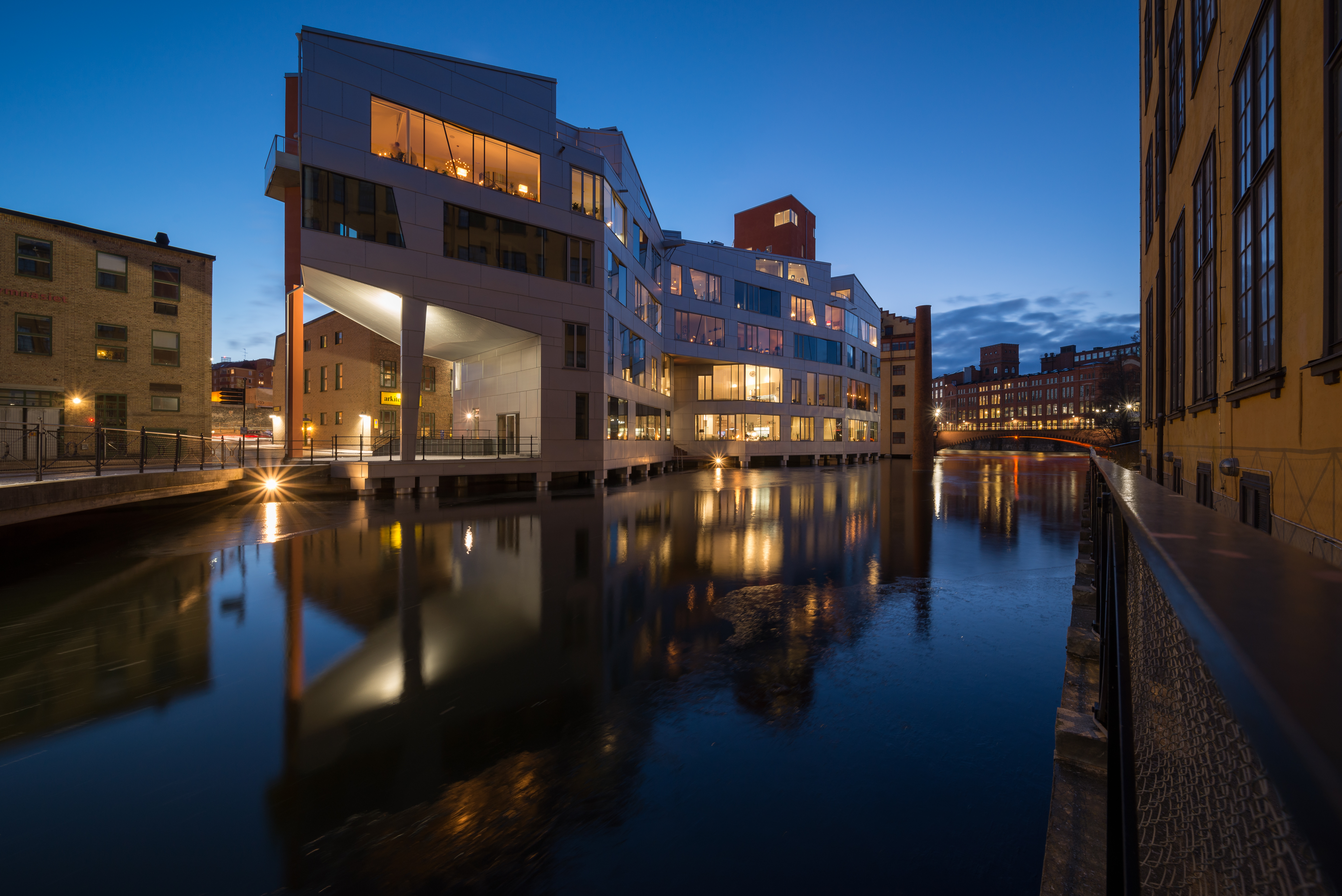 Residential building “Katscha“ in Norrköping, Sweden. Built 2015. Architects: Ingrid Reppen and Kai Wartiainen. wrong exif-information. 12mm and F/11